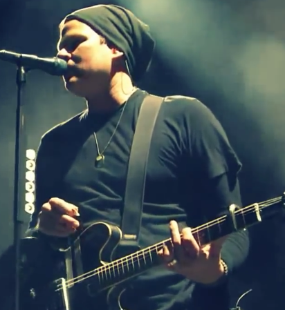 Tom DeLonge formerly of blink-182 live in Las Vegas in 2012.